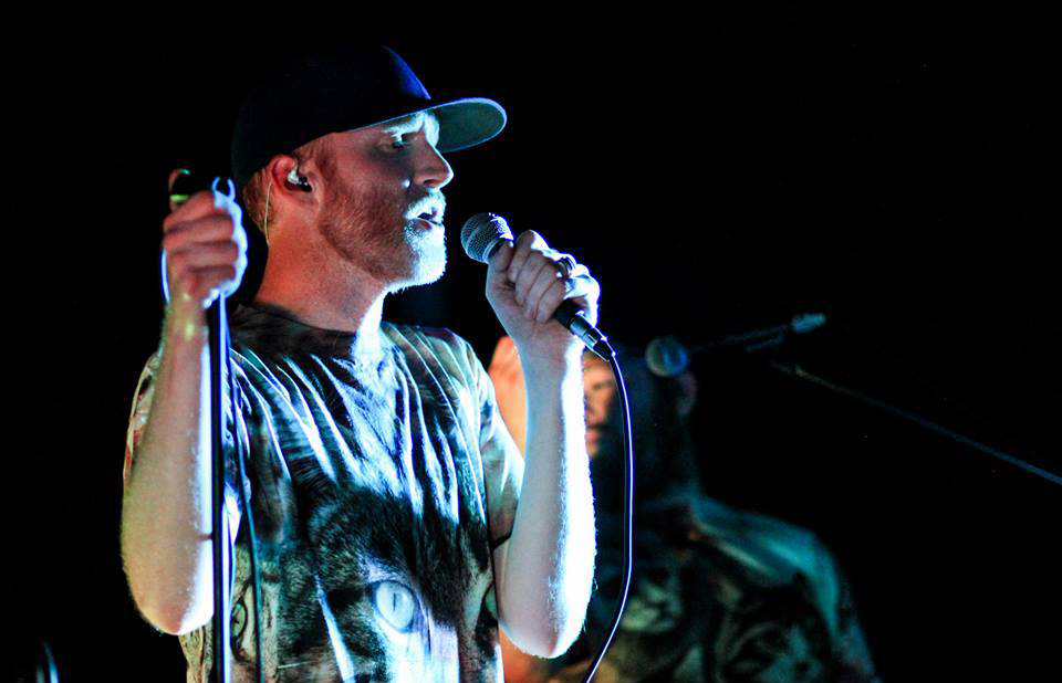 This is my own photograph I took of Logan Lynn on stage at the 2013 Queer Music Summer Tour Benefit for LGBTQ Mental Health Services & Suicide Prevention.